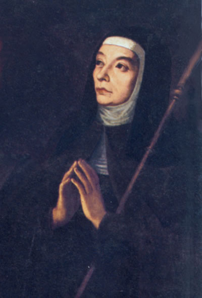 Blessed Mary Angela Astorc, capucine clare nun (17th century)